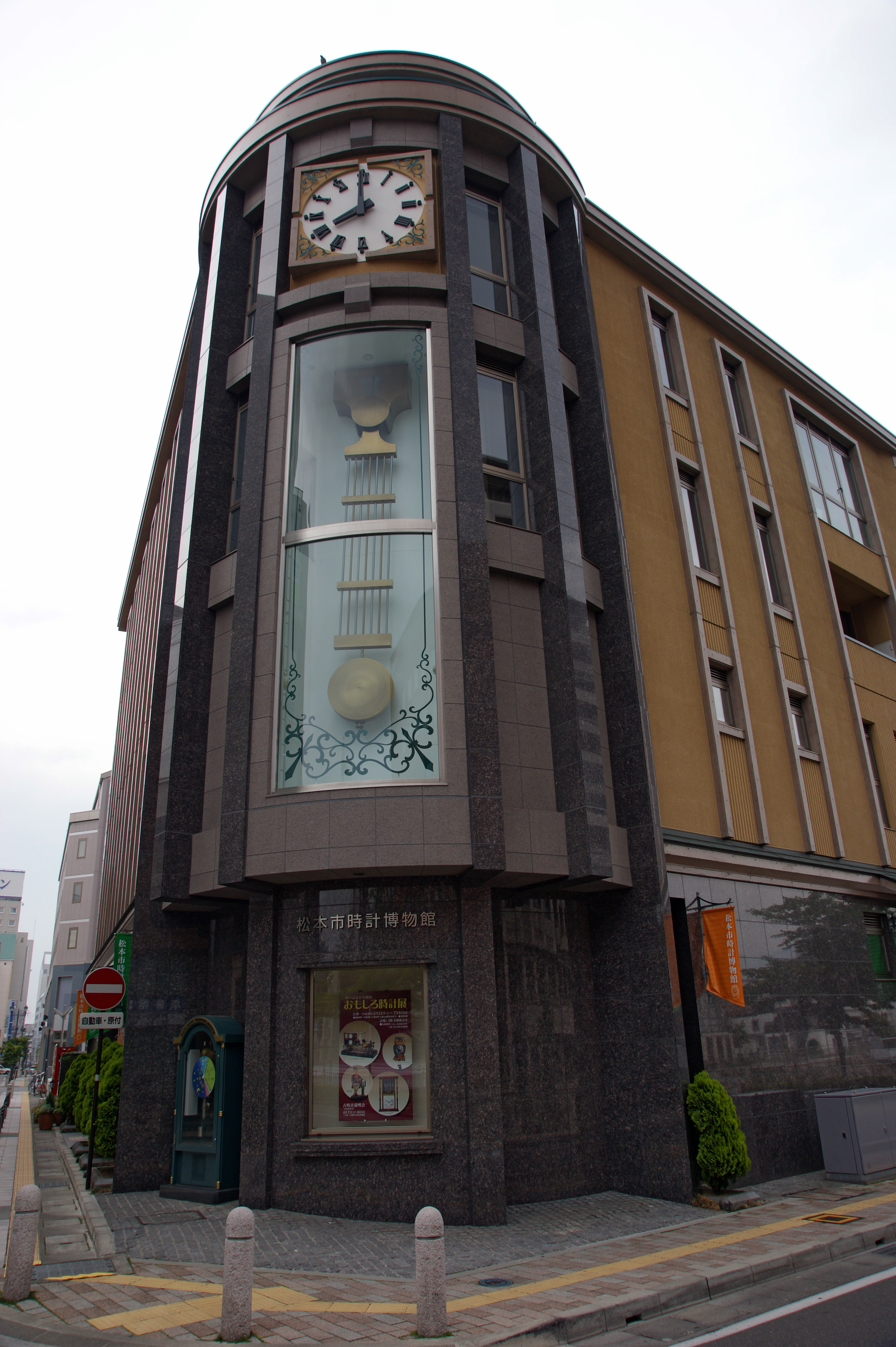 Matsumoto Timepiece Museum in Matsumoto, Nagano prefecture, Japan